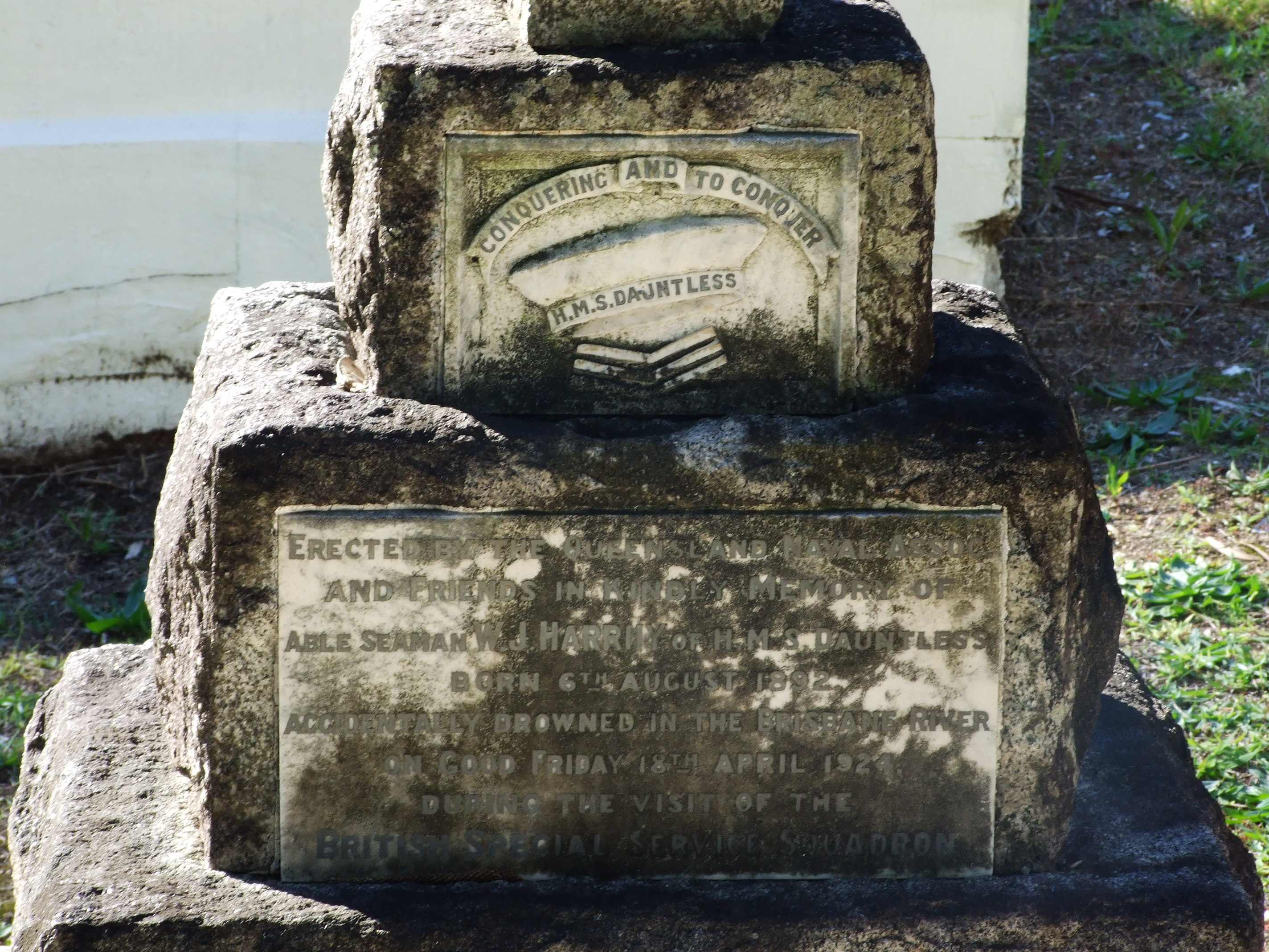 Headstone of WJ Harrhy, a sailor aboard HMS Dauntless. Harrhy drowned in the Brisbane River in 1924.